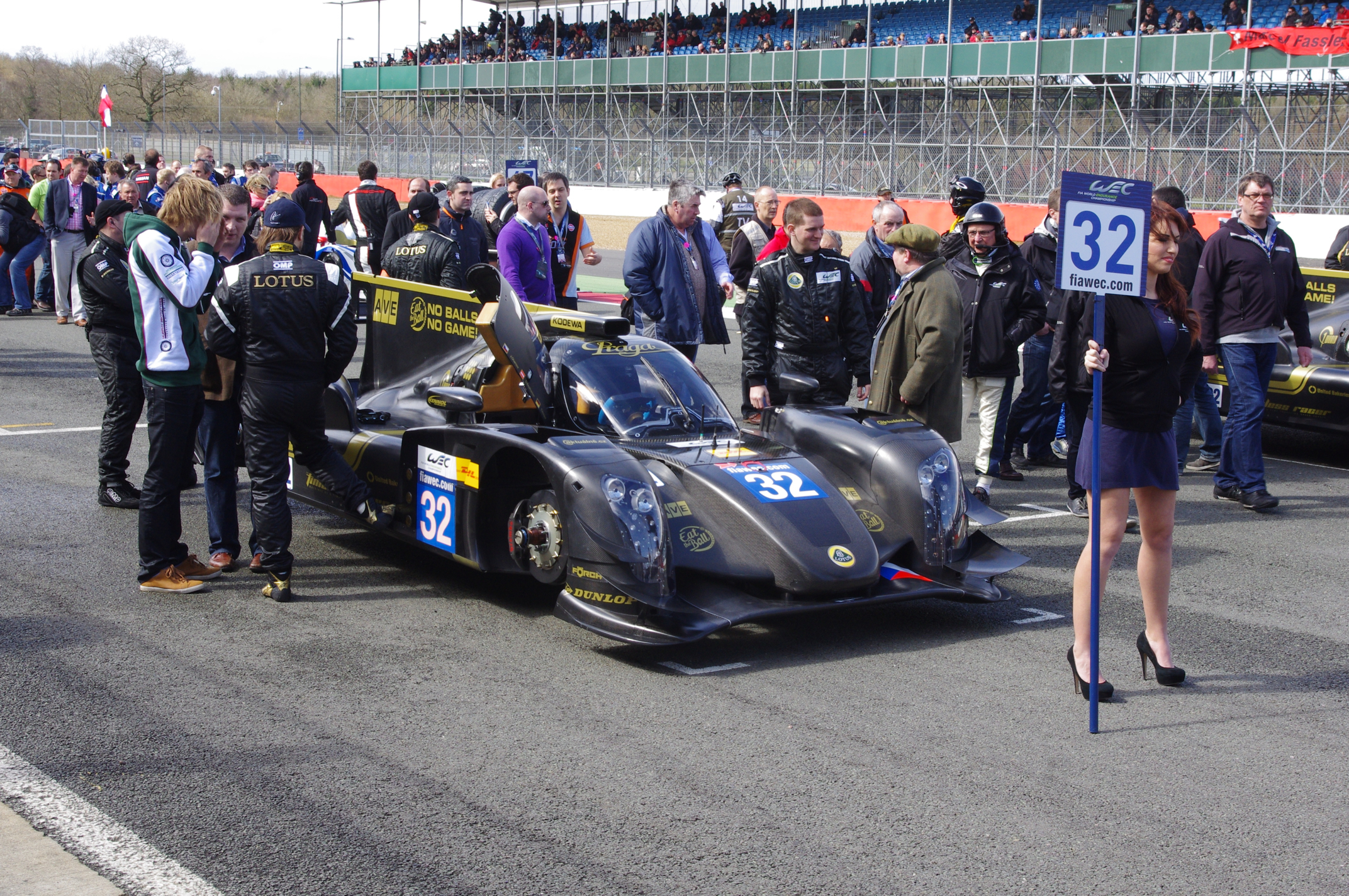 Grid Walk - Silverstone 6 Hours 2013 FIA World Endurance Championship (WEC)